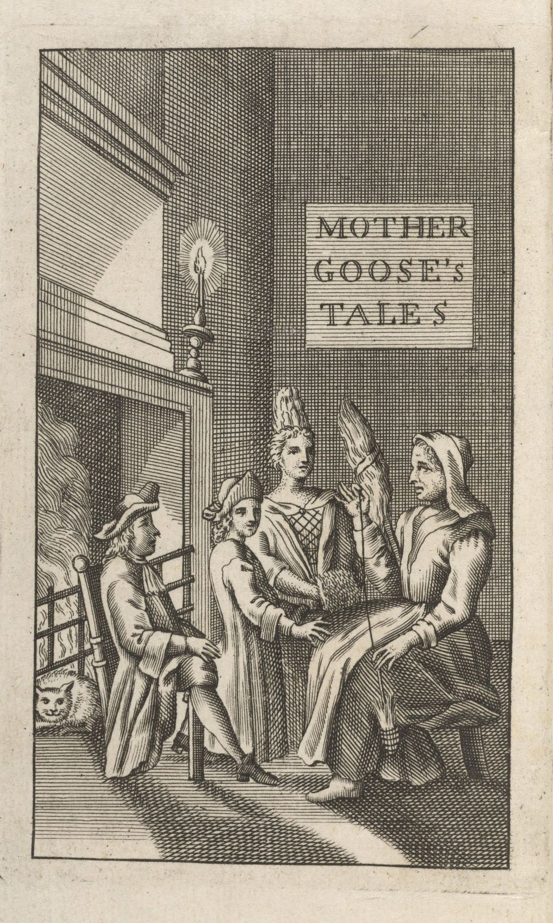 Frontispiece: Histories, or tales of past times, London: 1729, by Charles Perrault (1628-1703). First known English translation of Perrault’s Contes des fées, better known as the tales of Mother Goose. From the only extant copy known. *FC6.P4262.Eg729s, Houghton Library, Harvard University